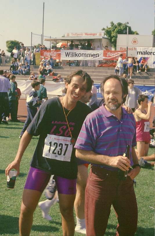 Jens Lukas - german ultra - runner - member of LSG Karlsruhe